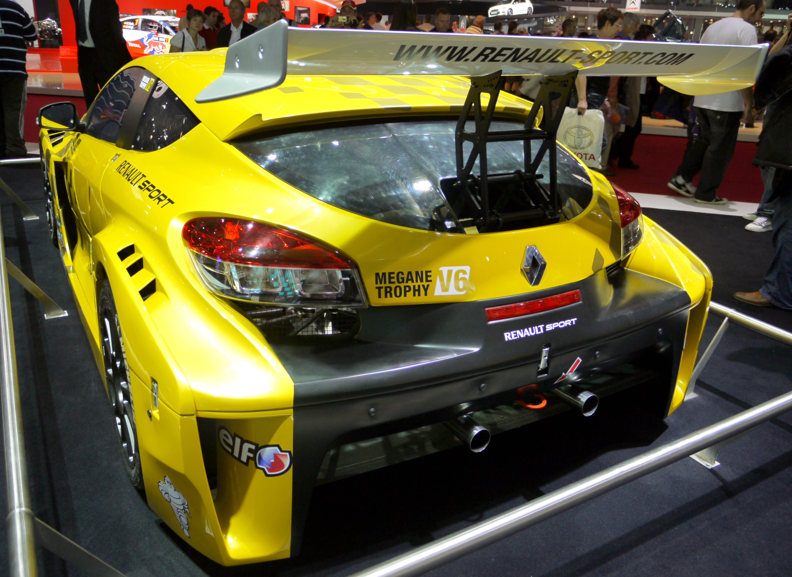 Mégane Trophy V6 by Renault Sport - a beast!